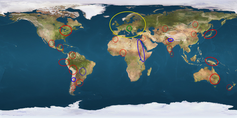 Tibor Sekelj's travell destinations across the world (1912-1988) Travell destinations Theme of a book Home land Europe countries